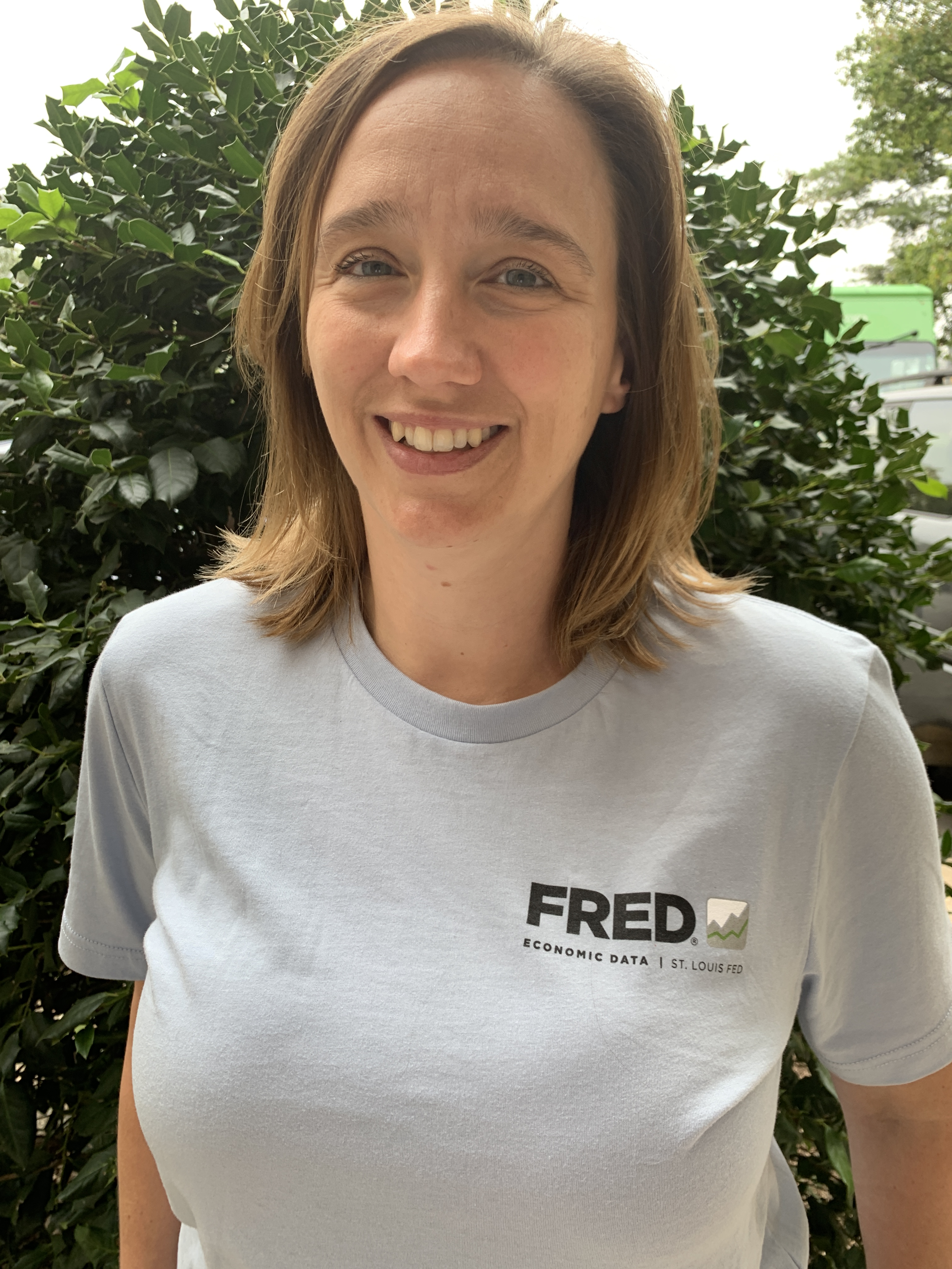 FRED is an online, free economic database maintained by the Federal Reserve Bank of St.Louis